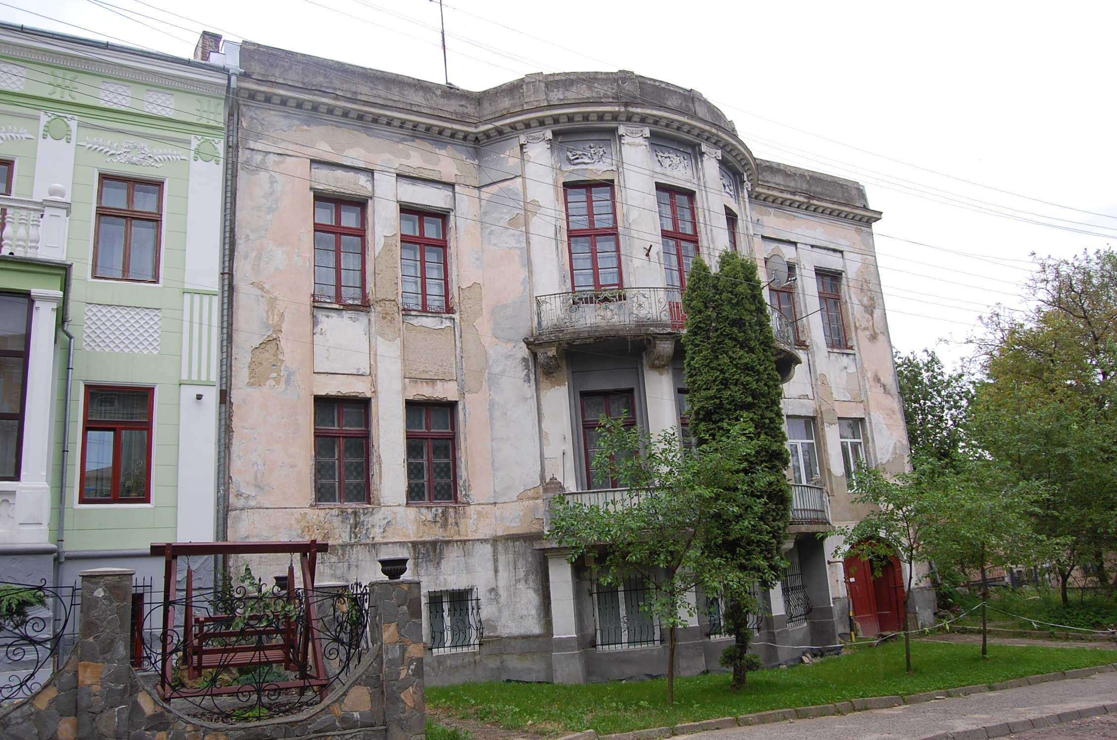 Private Gymnasium them. Henryk Sienkiewicz, Shevchenko Street(now dwelling house, Adam Mickiewicz 8 st.), Drohobych, Ukraine